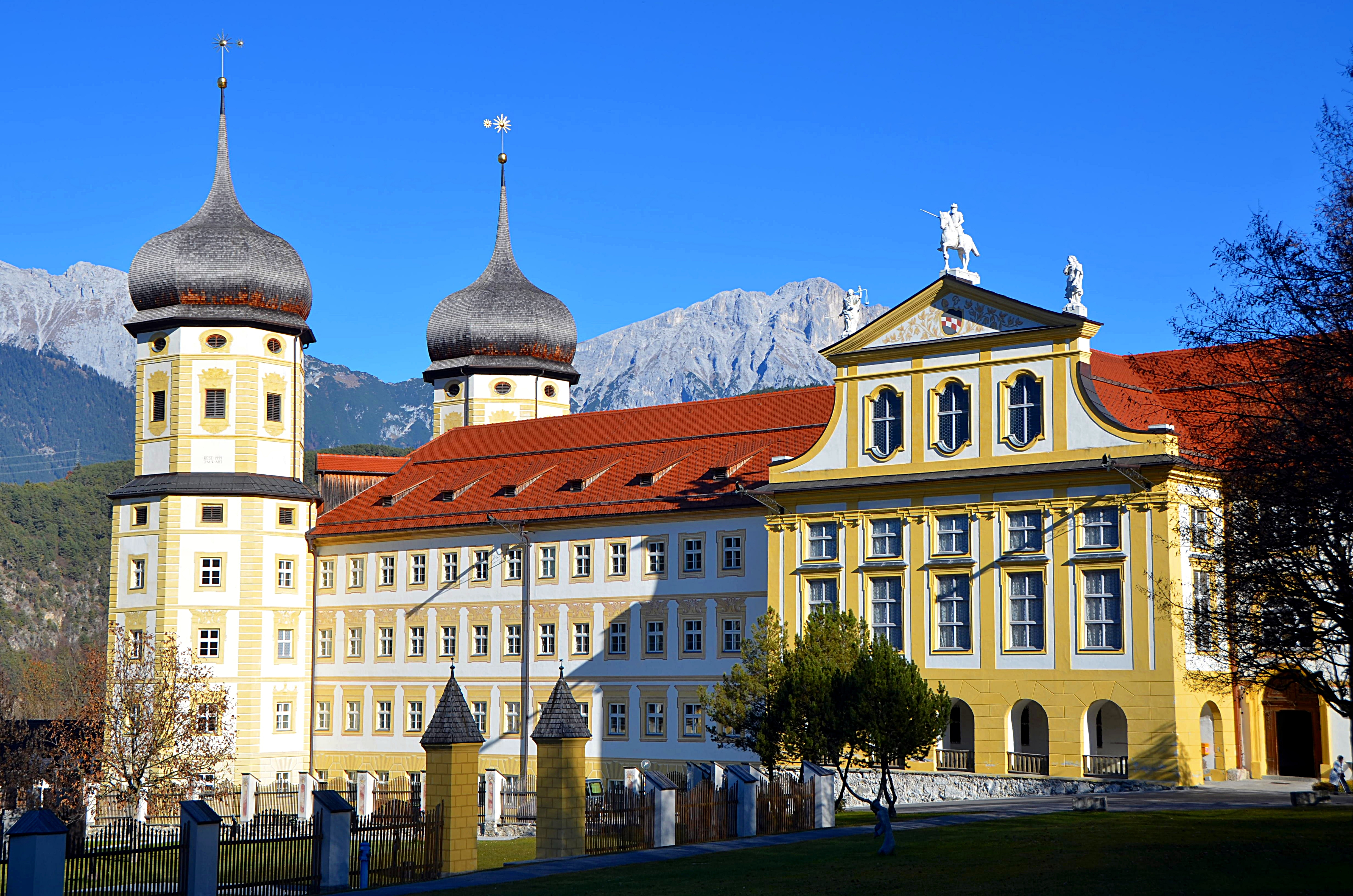 Cistercian Monastery Stams in Tyrol, Austria.